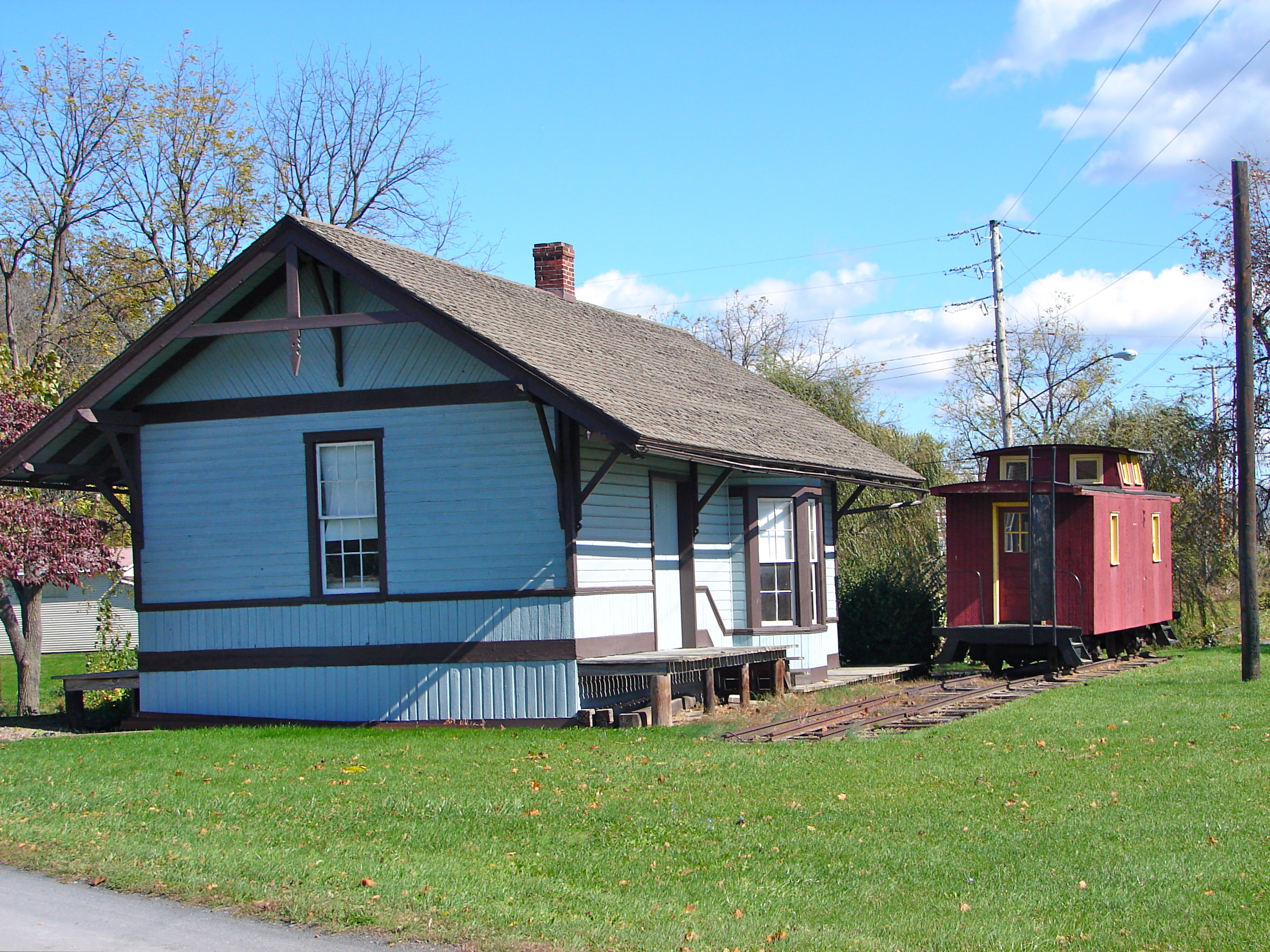 Blain Depot - restored by the Blain Lions Club 1985 - on the Newport and Shermans Valley Railroad